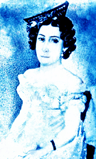 Manuelita Saenz, watercolor over ivory.